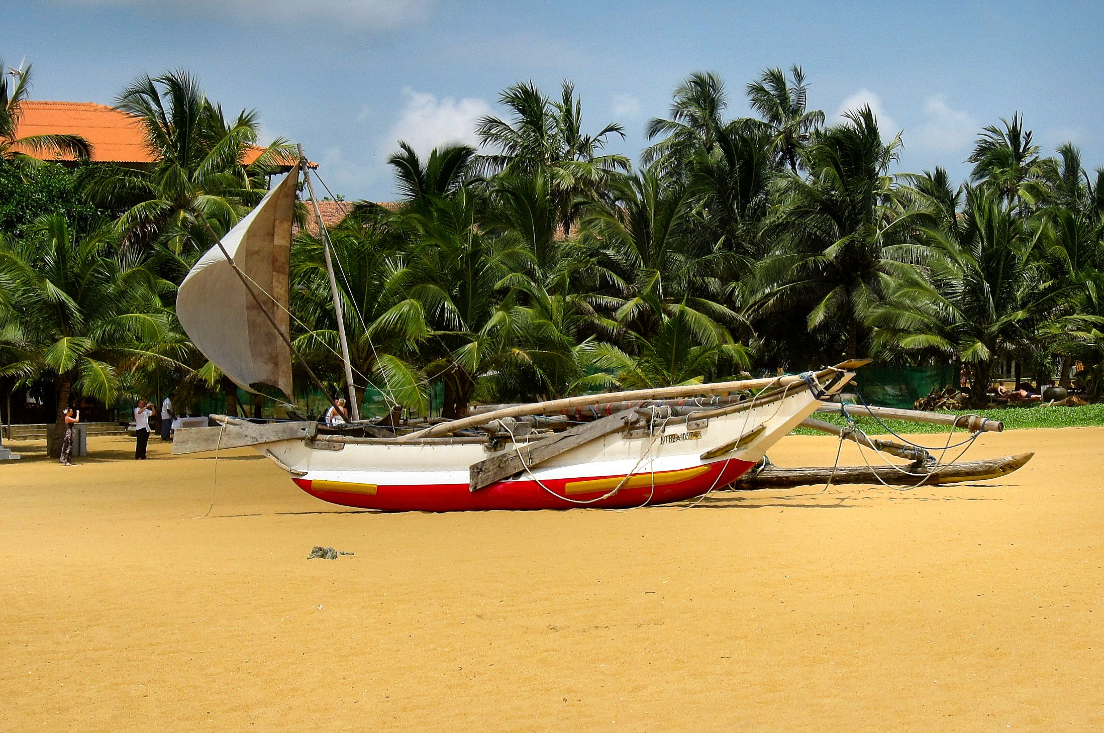 The tradition fishing boat as used in this part of the world.Taken on Negombo Beach.